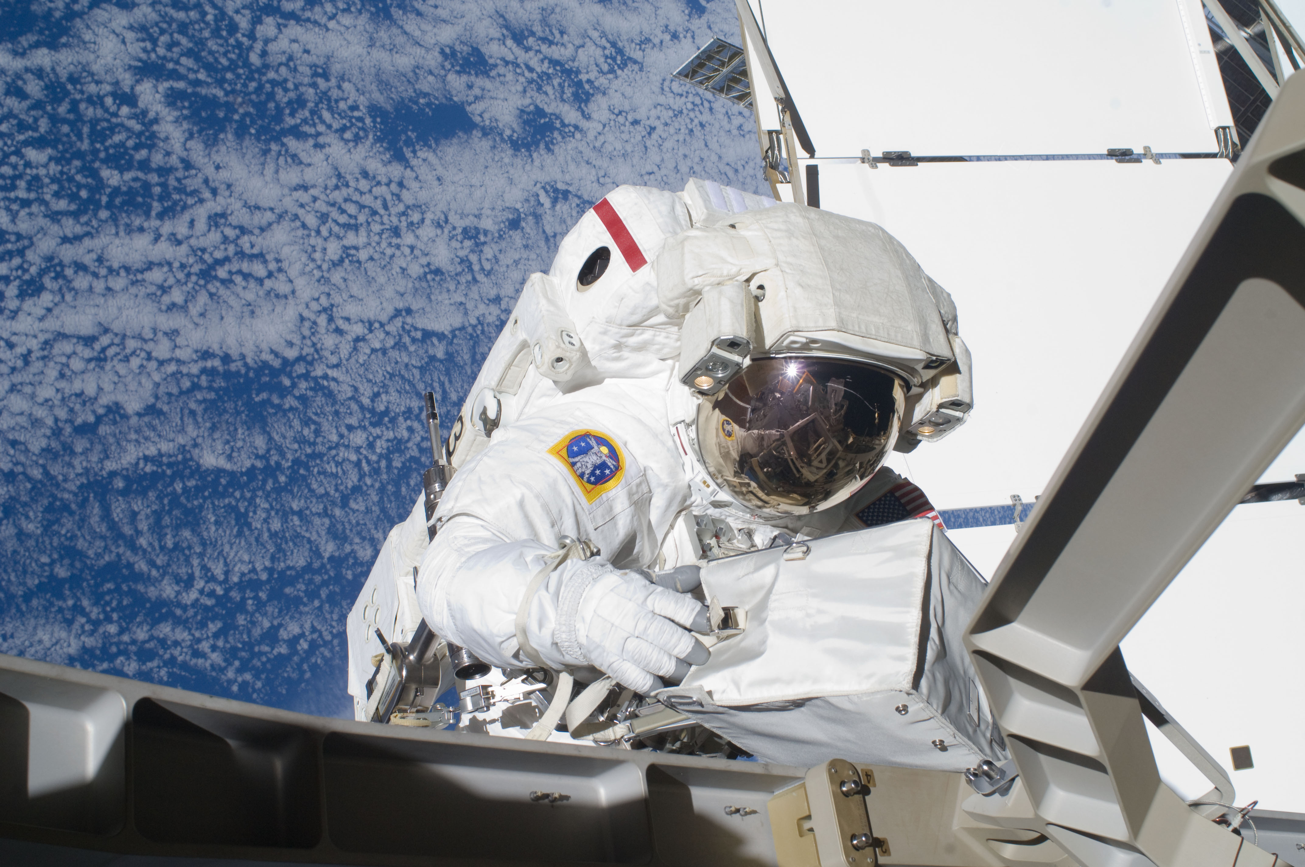 NASA astronaut John "Danny" Olivas, STS-128 mission specialist, participates in the mission's third and final session of extravehicular activity (EVA) as construction and maintenance continue on the International Space Station. During the seven-hour, one-minute spacewalk, Olivas and European Space Agency astronaut Christer Fuglesang (out of frame), mission specialist, deployed the Payload Attachment System (PAS), replaced the Rate Gyro Assembly #2, installed two GPS antennae and did some work to prepare for the installation of Node 3 next year. During connection of one of two sets of avionics cables for Node 3, one of the connectors could not be mated. This cable and connector were wrapped in a protective sleeve and safed. All other cables were mated successfully.